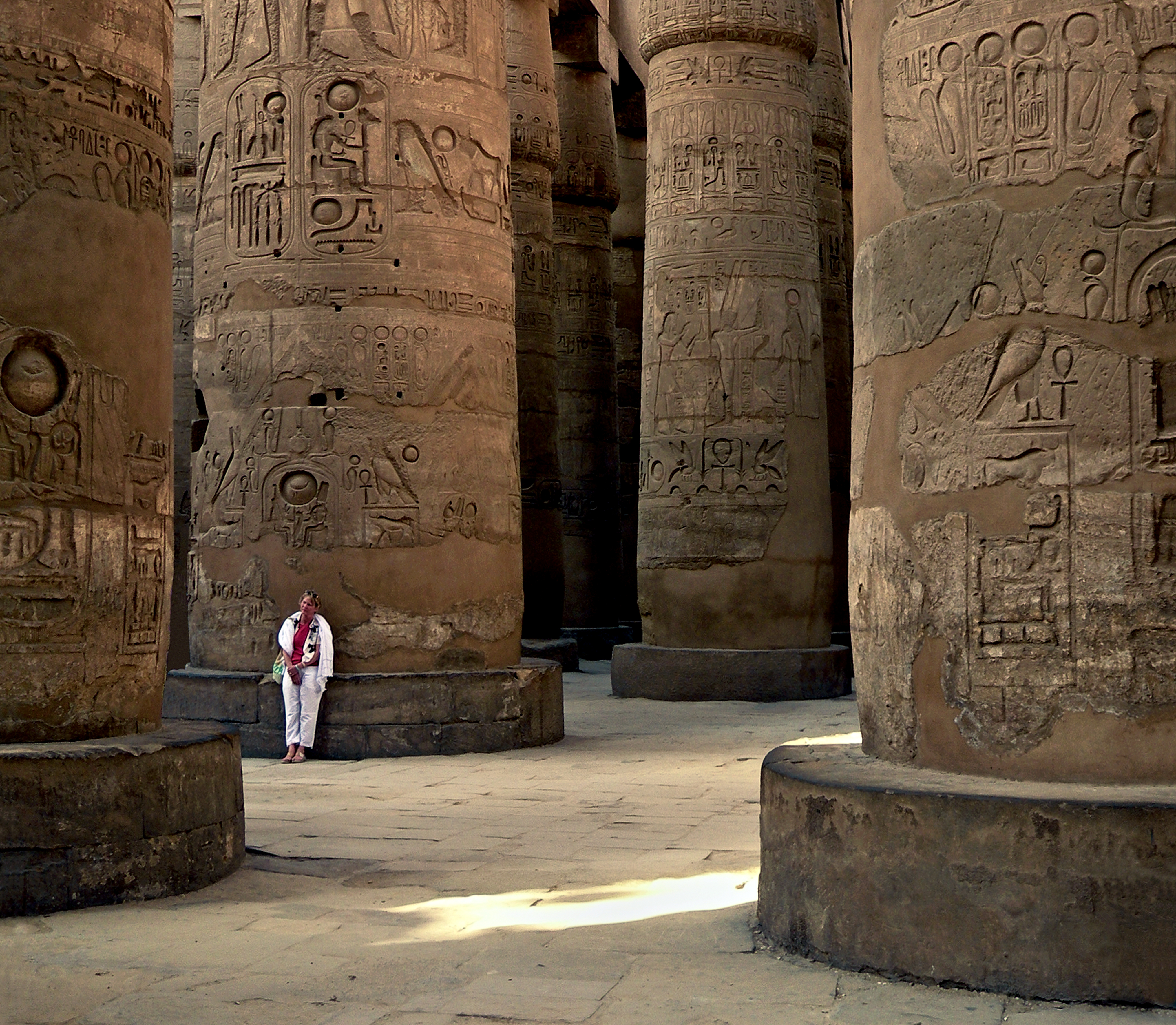 Forest of eternity. Temple of Karnak, Egypt